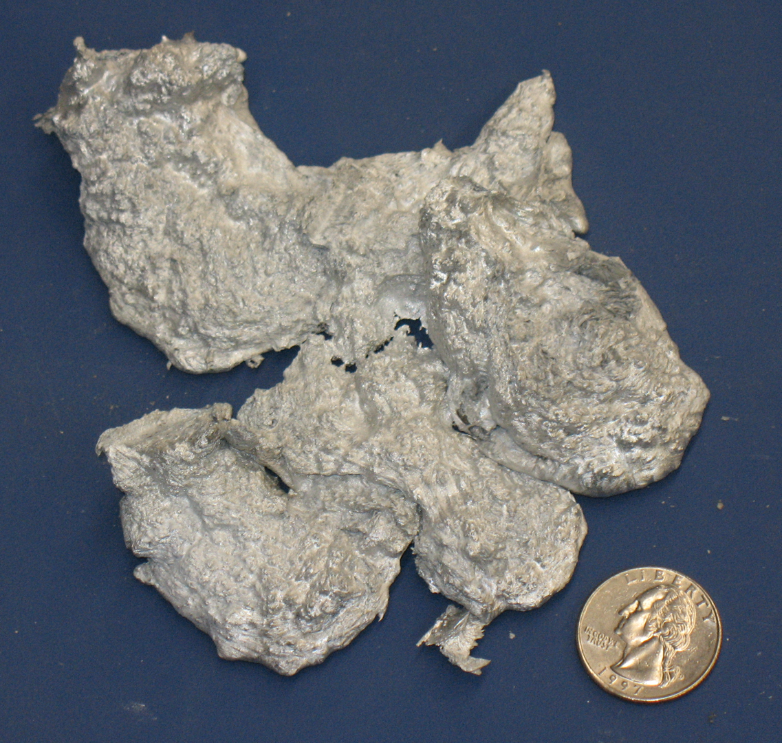 Aluminium oxide skimmed off the surface of molten aluminium.